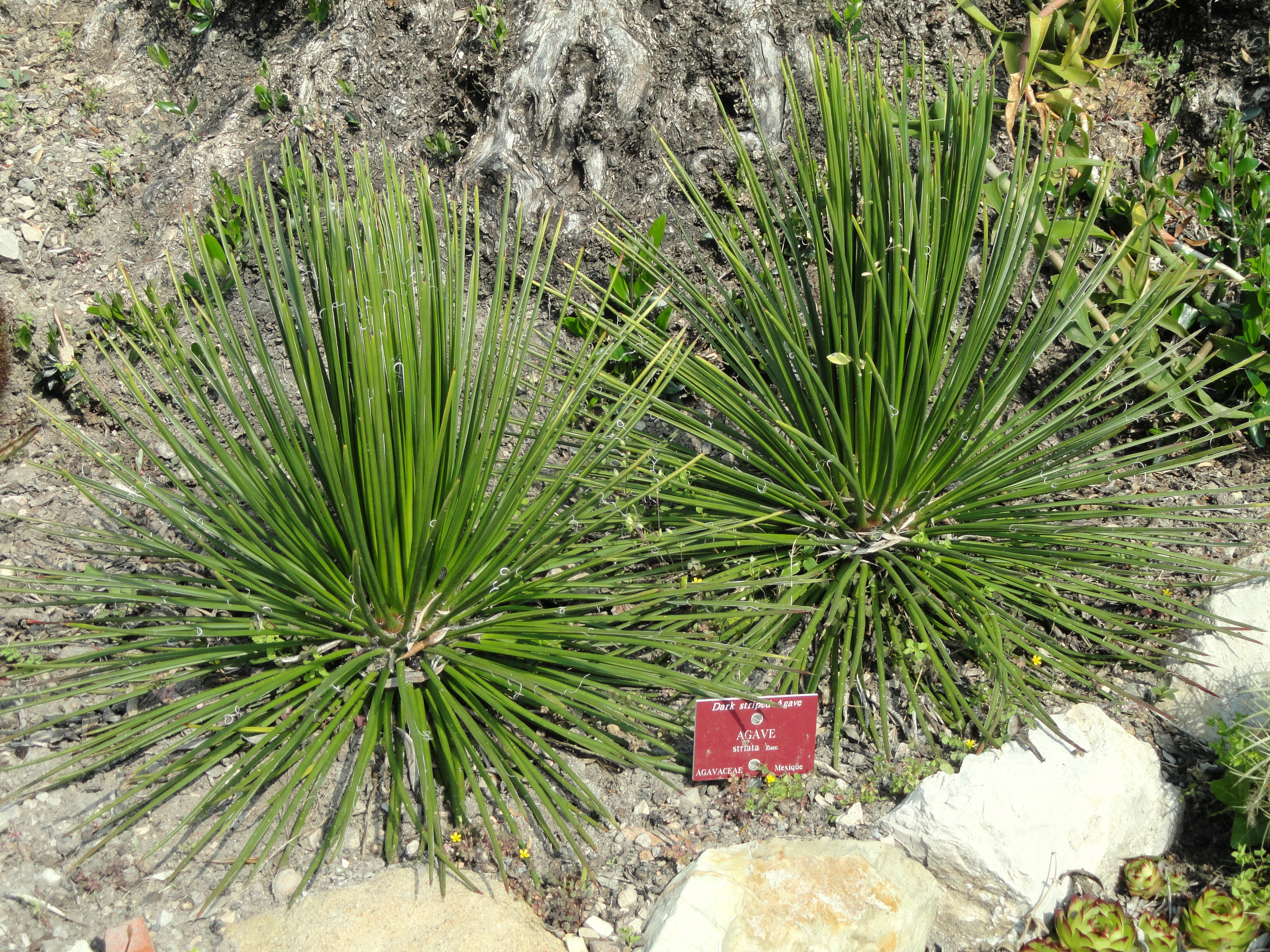 Agave striata specimen in the Jardin botanique du Val Rahmeh, Menton, Alpes-Maritimes, France.